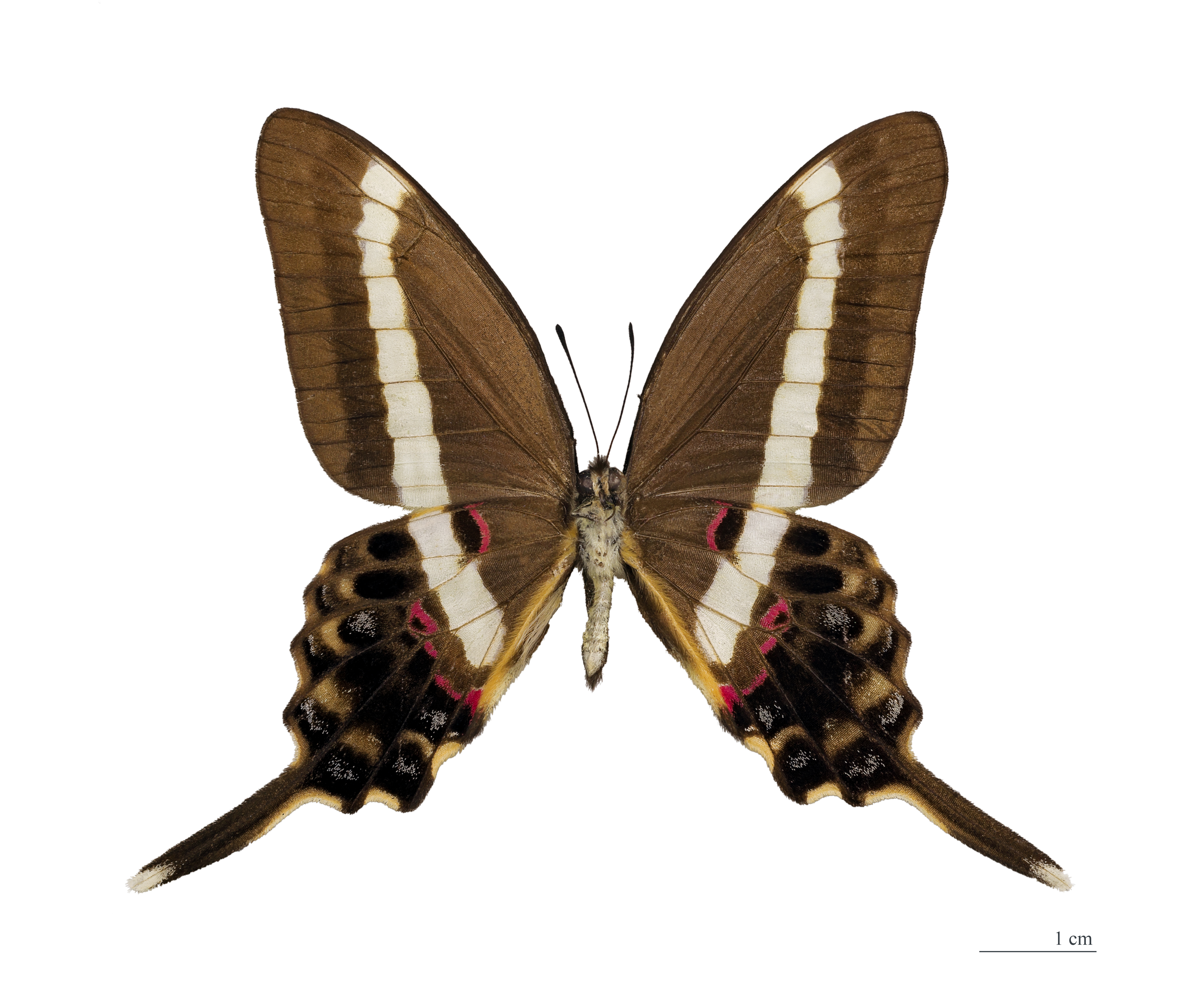 ♂ - △ Ventral side Locality: Boukoko, Central African Republic.